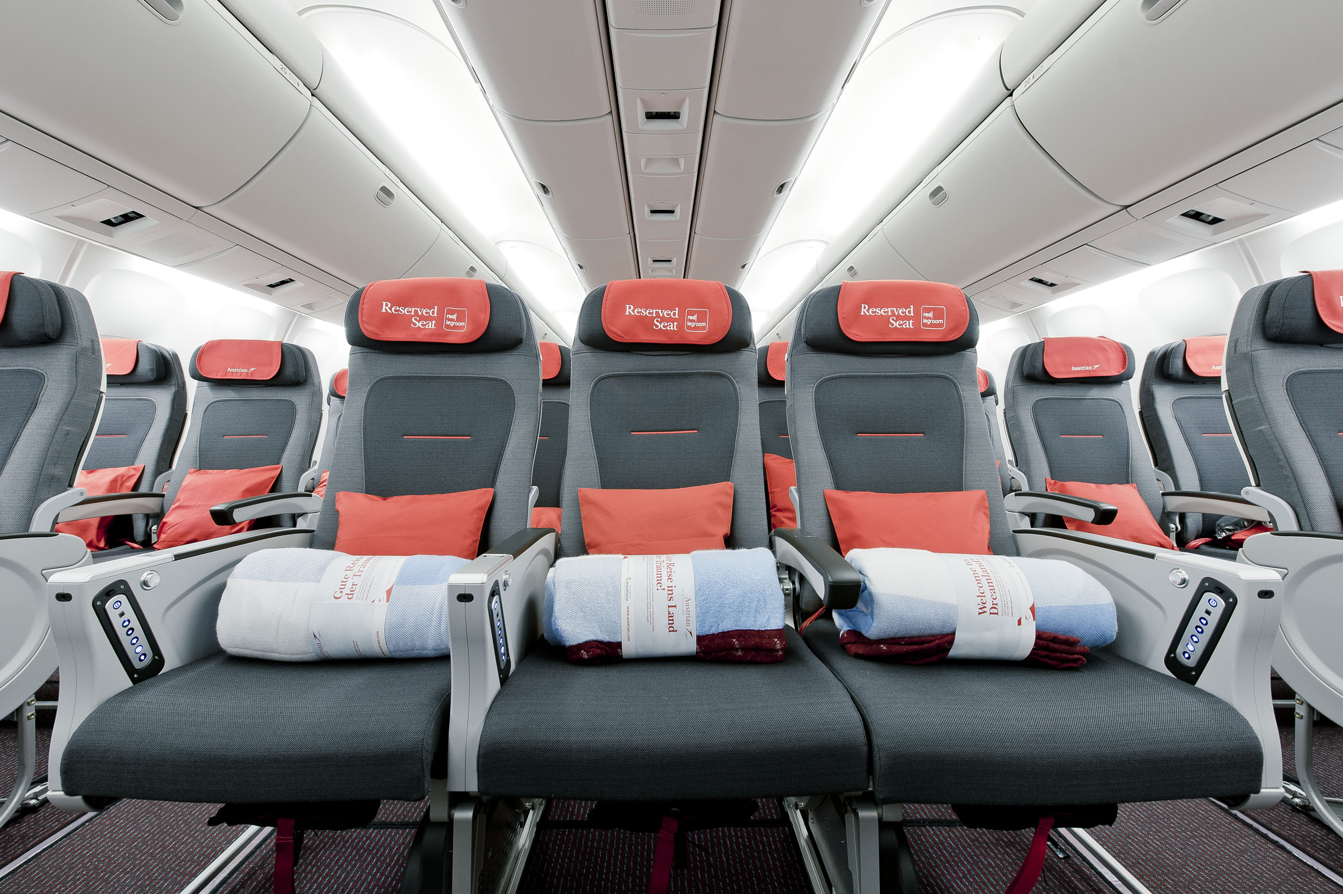 Austrian Airlines long-haul passenger cabin